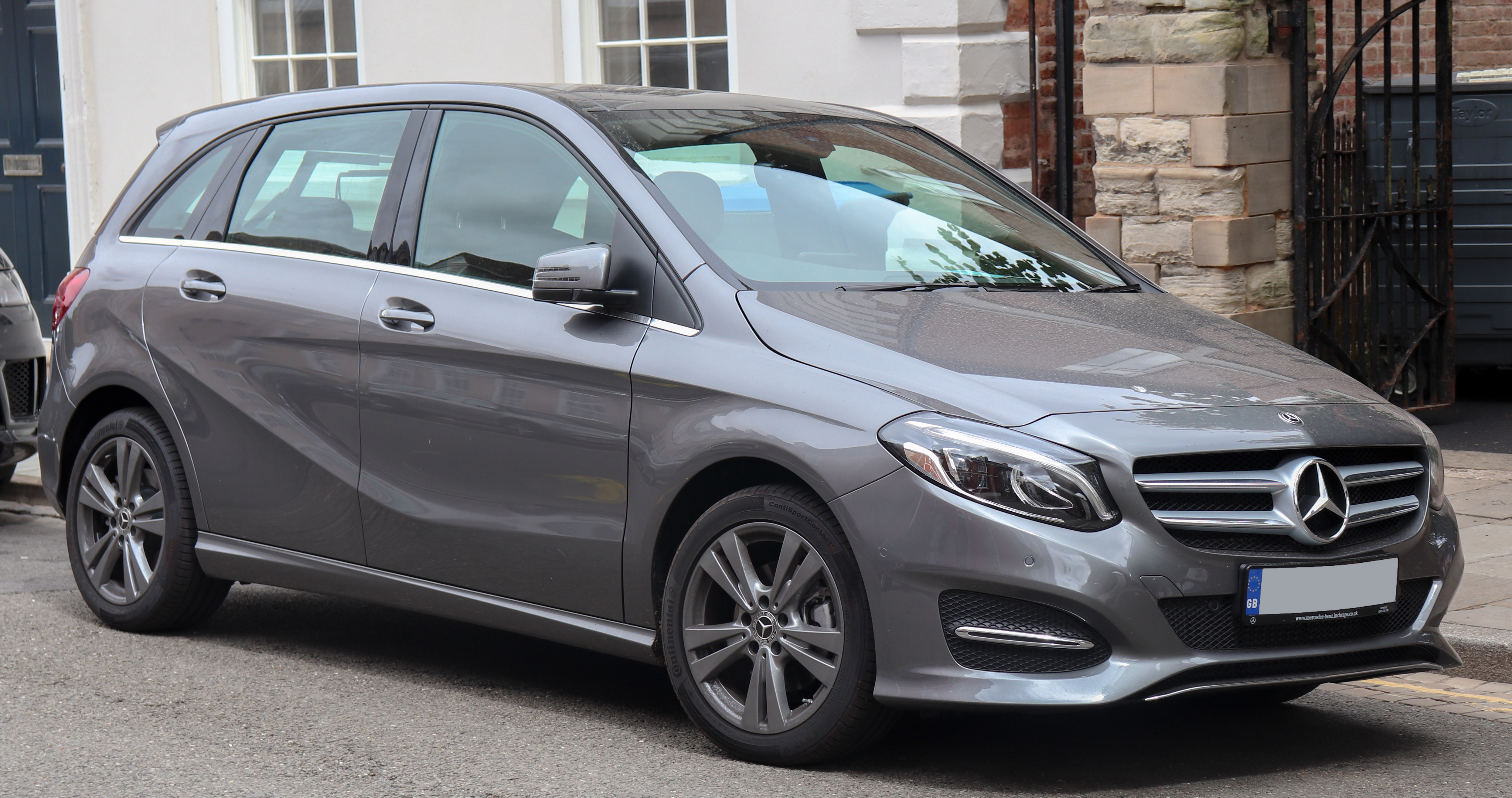 2018 Mercedes-Benz B220d Exclusive Edition 2.1 Front Taken in Warwick